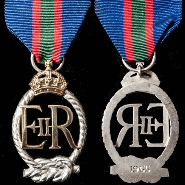 The Queen Elizabeth II version of the Decoration for Officers of the Royal Naval Volunteer Reserve